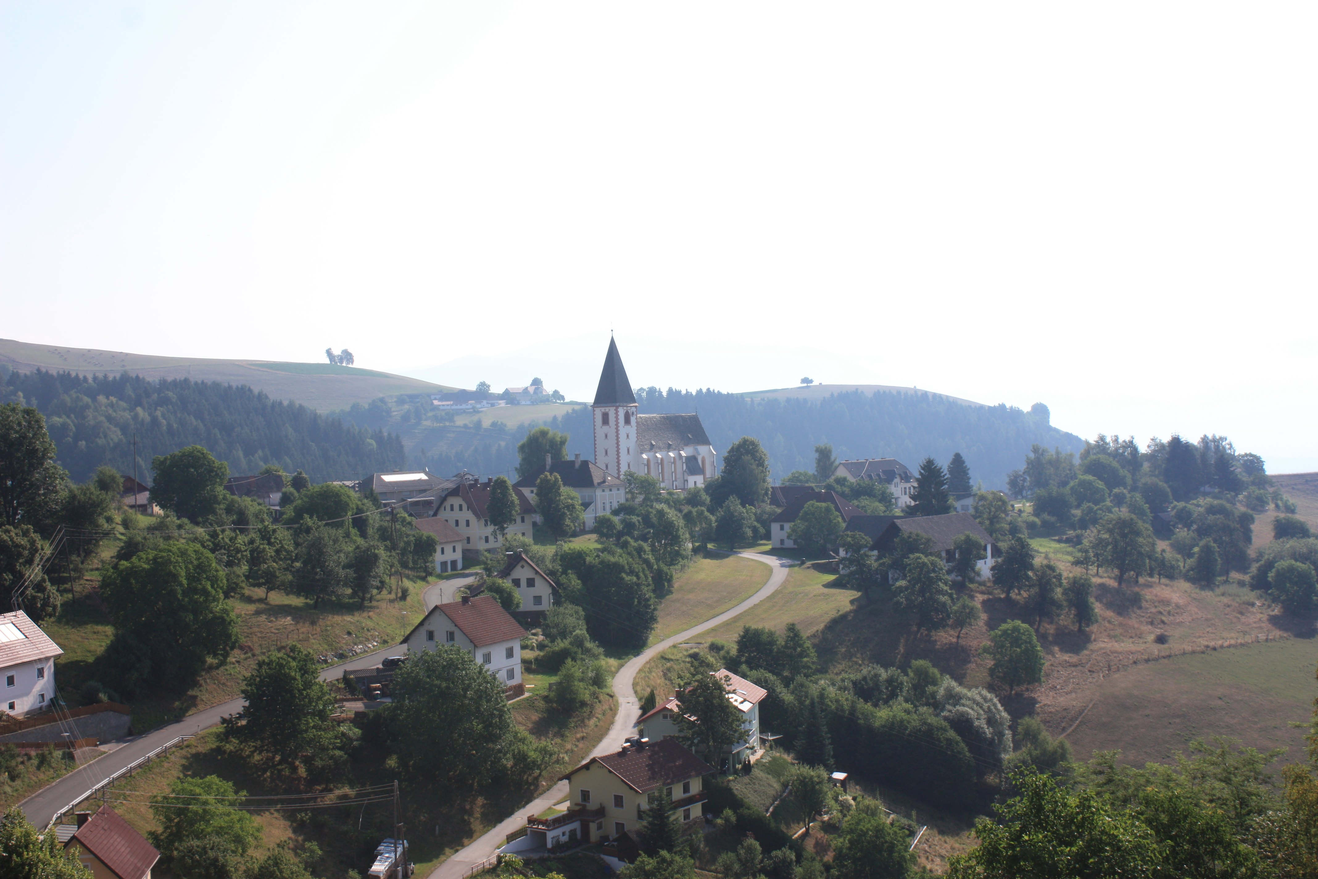 View to Pustritz in the community of Griffen